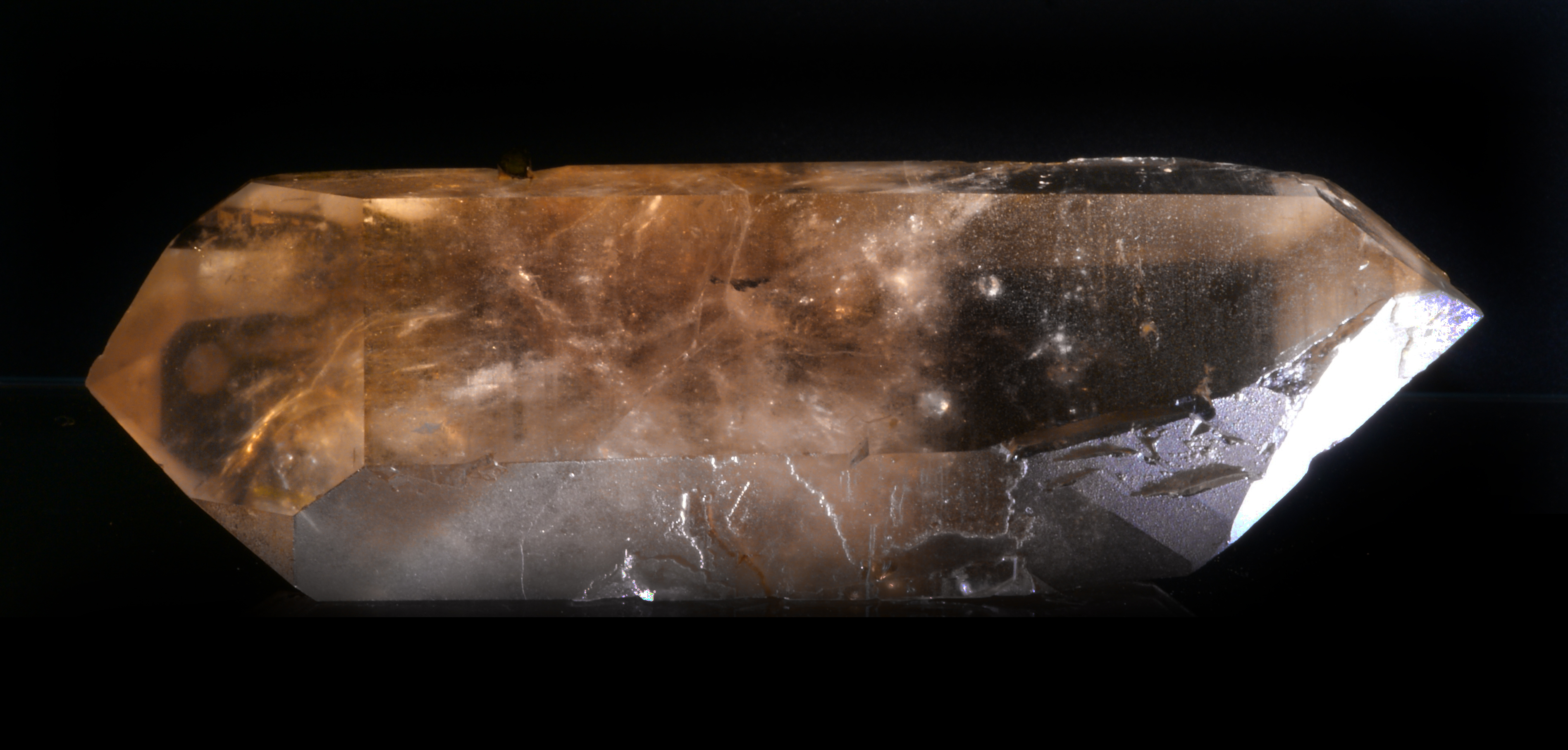 Quartz Citrine - Minas Gerais - Brasil (18x6cm)